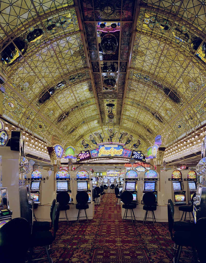 Casino and leaded-glass ceiling at the Tropicana Hotel, Las Vegas, Nevada